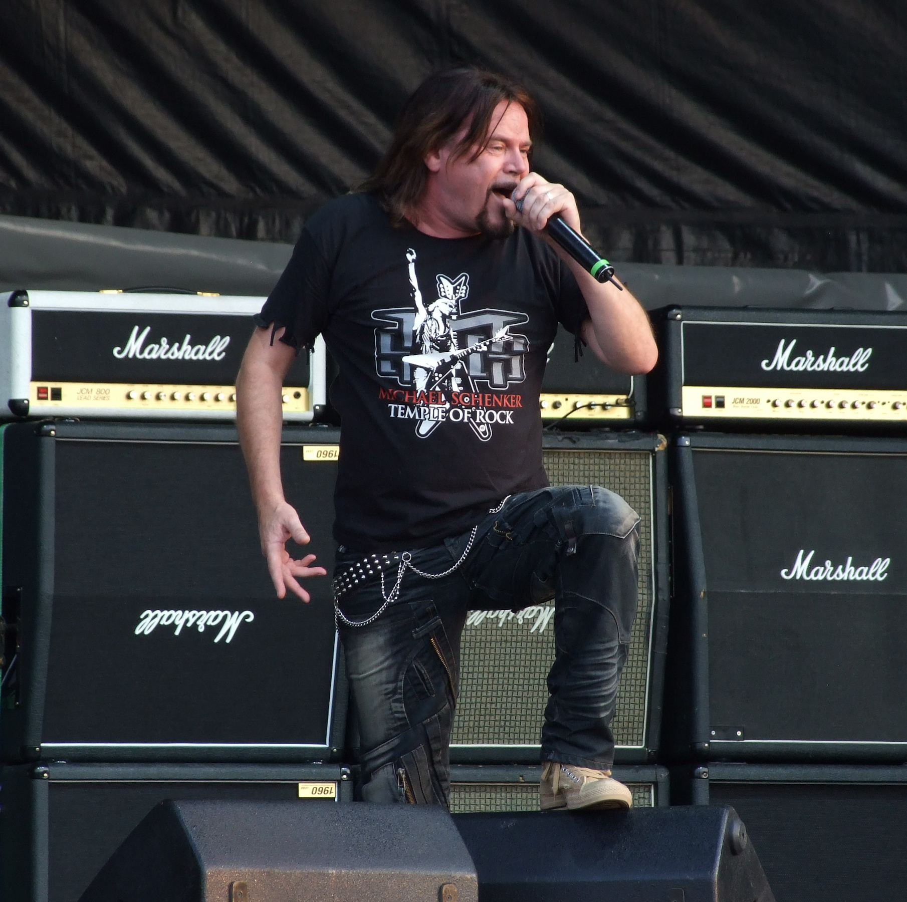 The British rock vocalist Doogie White performing with Michael Schenker Group (MSG) at Kavarna Rock Fest 2012.